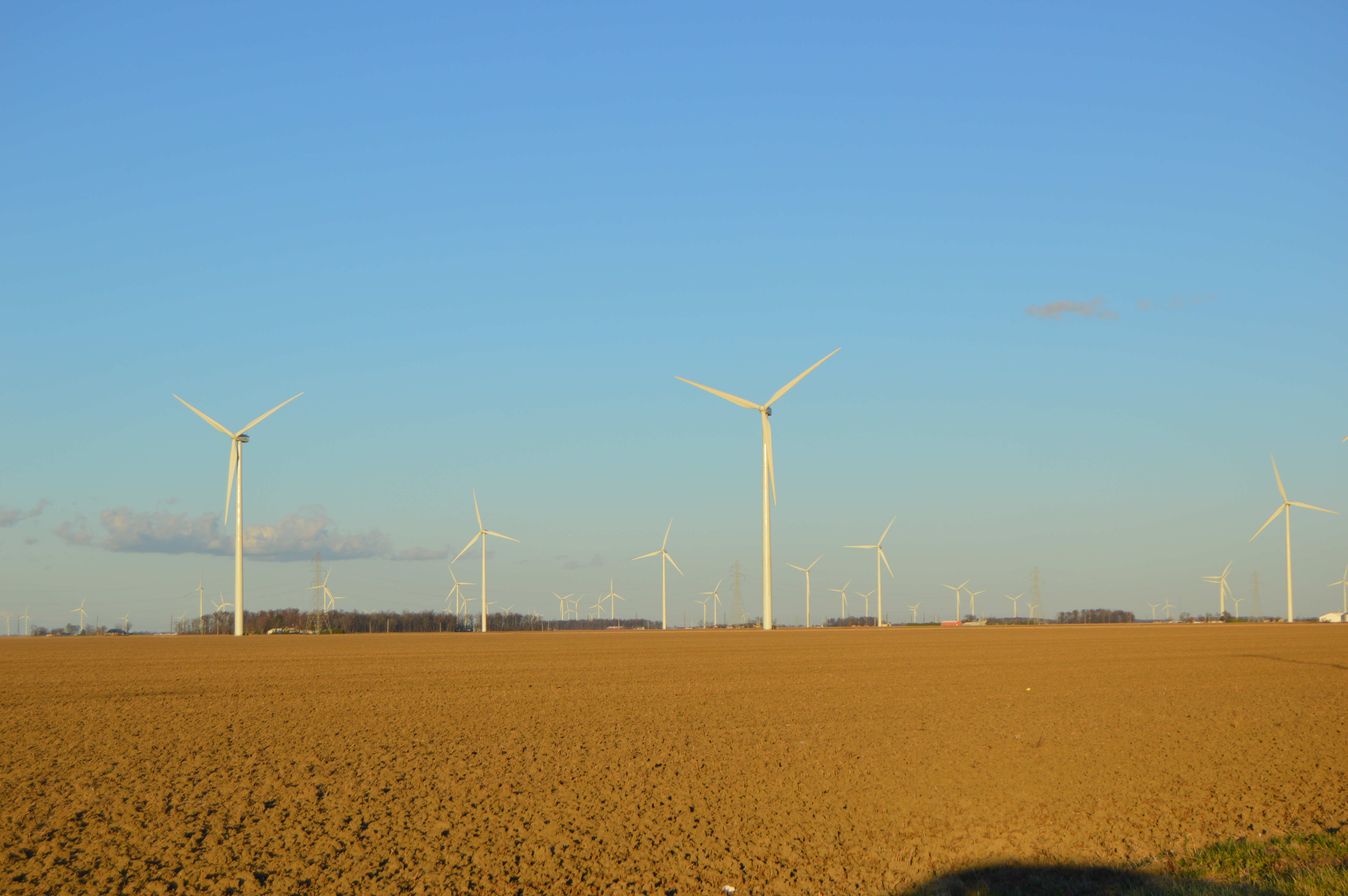 Fields on the northern side of Convoy Road just east of U.S. Route 30 in southwestern Union Township, Van Wert County, Ohio, United States.